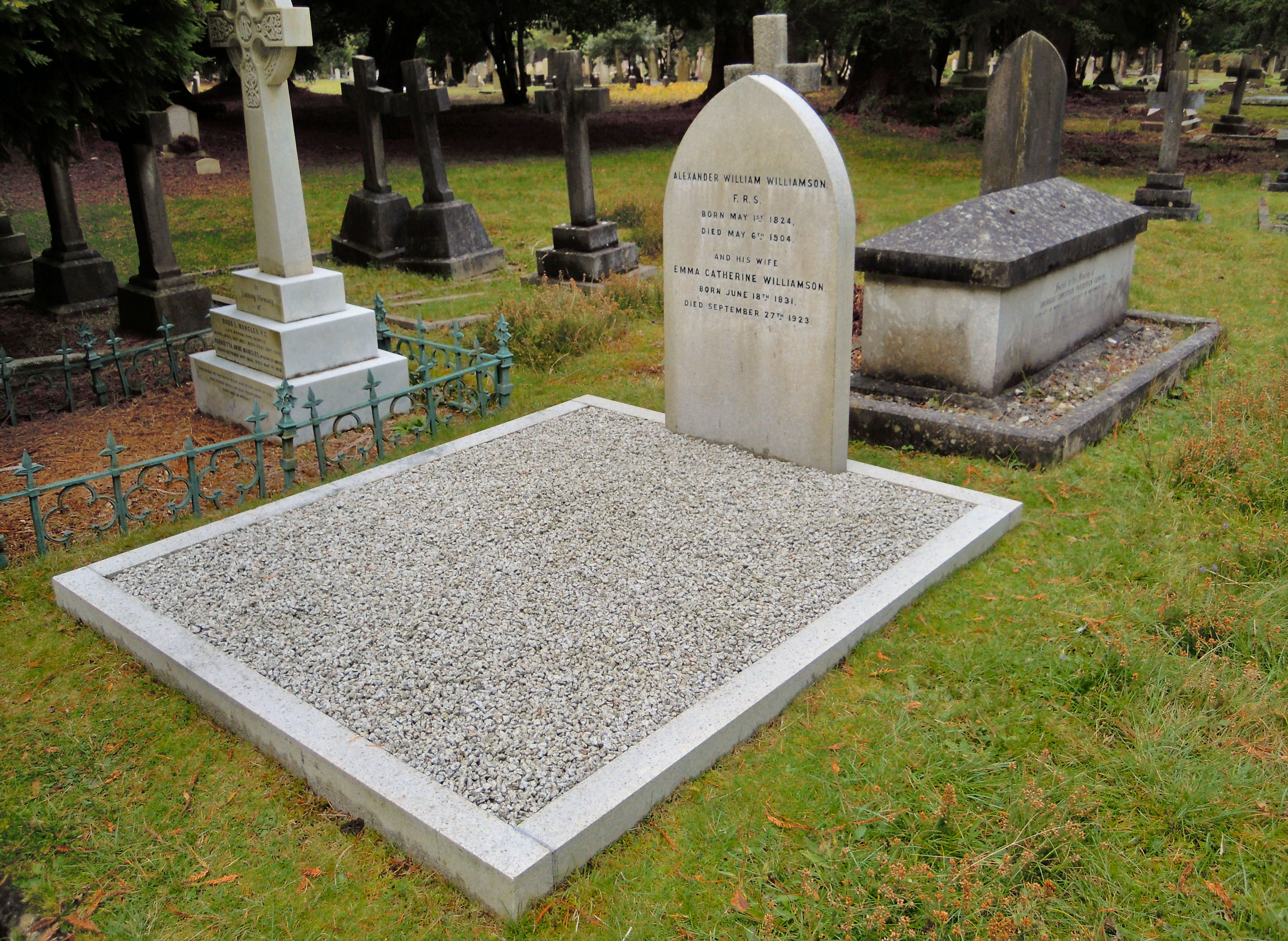 The grave of Alexander William Williamson in Brookwood Cemetery